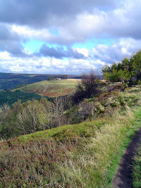 Boltby Scar Views. The view north from Boltby Scar with Town's Pasture wood to the left and High Barn just above middle centre. Boltby Scar has the scanty remains of an Iron Age fort (a grass-covered mound and ditch). There is also a "windypit" out in the fields - a fissure in the limestone that usually leads to a small cavern or pit. These were used by the Beaker people (about 2000 BC) as temporary winter homes and burial pits. The image is taken from " Hillfort Windypit"